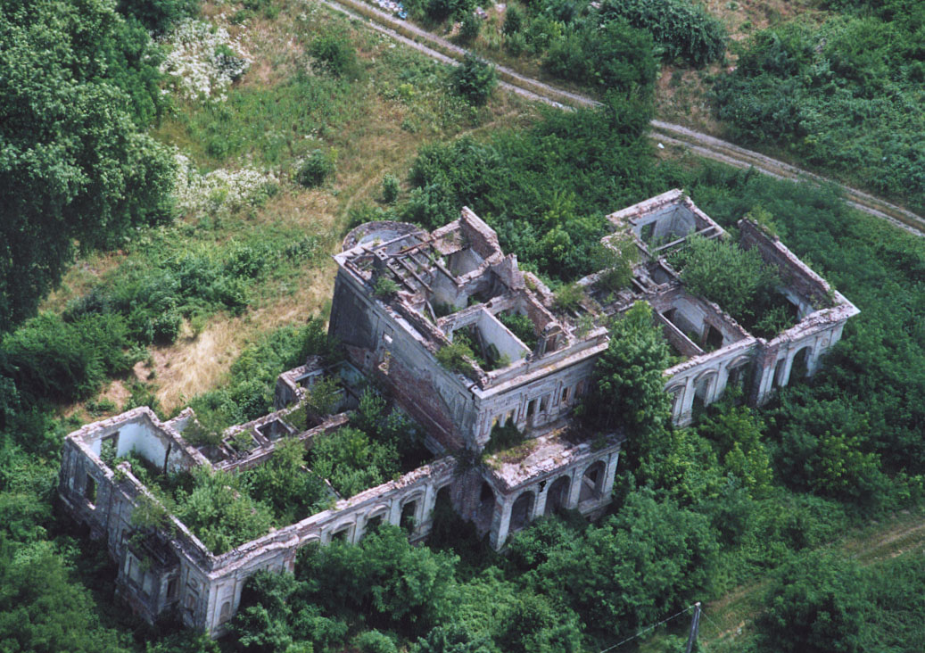 Barcs - Hungary - Europe